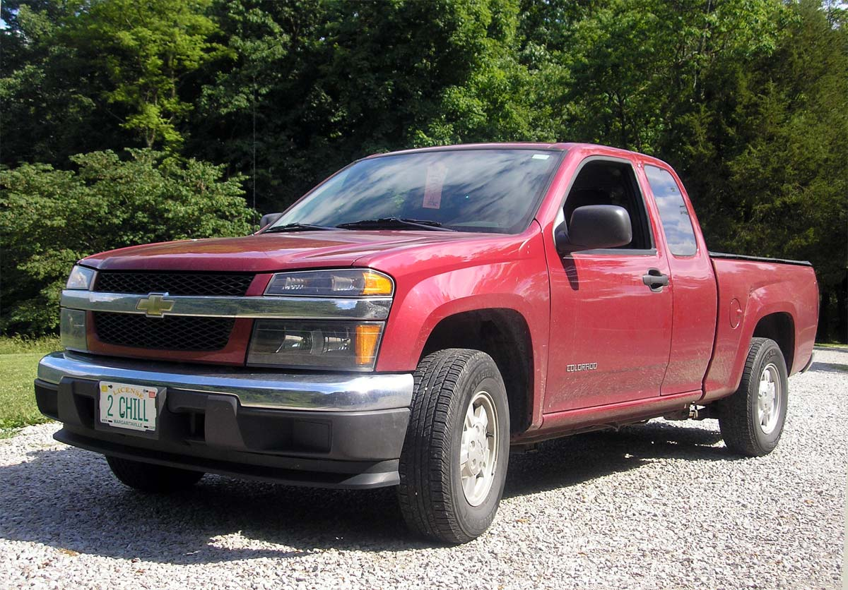 Chevrolet Colorado extended cab truck. Photographed by me at Brown County State Park in Indiana.